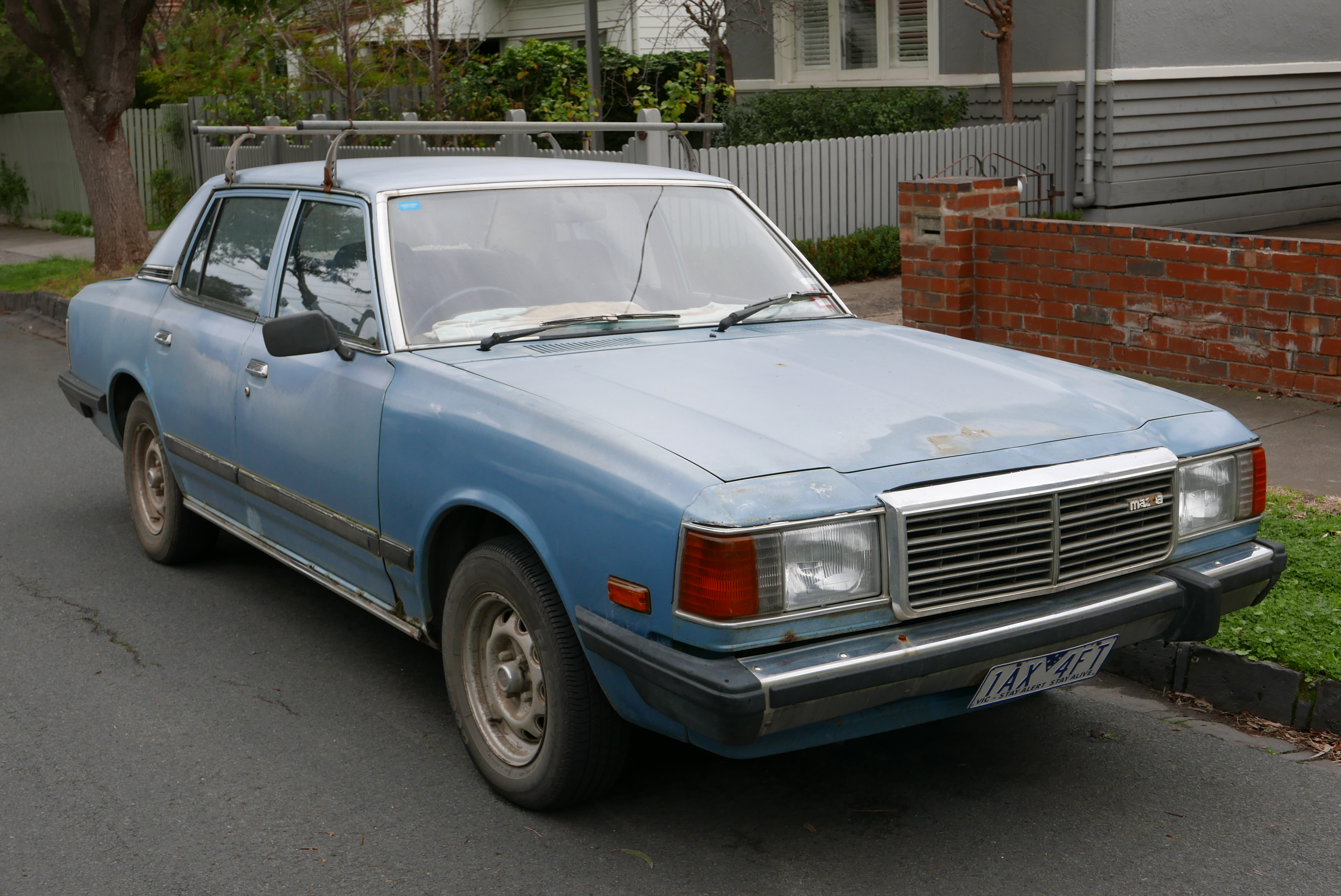 1980 Mazda 929L (LA4) Deluxe sedan. Photographed in Hawthorn, Victoria, Australia. Vehicle registration enquiry results Jurisdiction Victoria Registration 1AX4FT Chassis code Not available Engine code H31654 Compliance date Not available Year of manufacture 1980